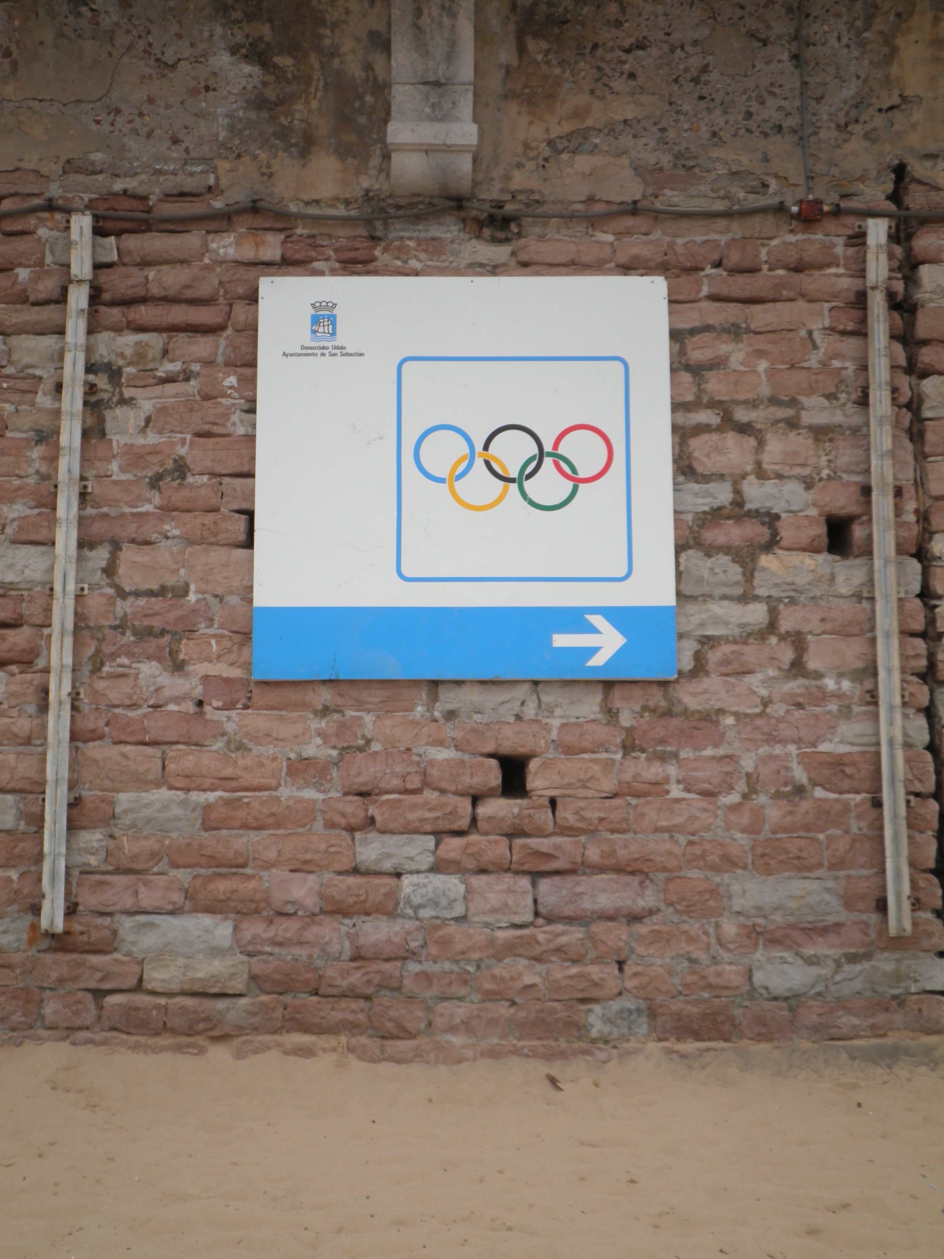 Signal showing the sport area in the beach.